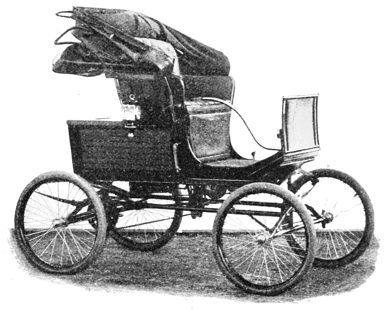 American steam carriage of 1900